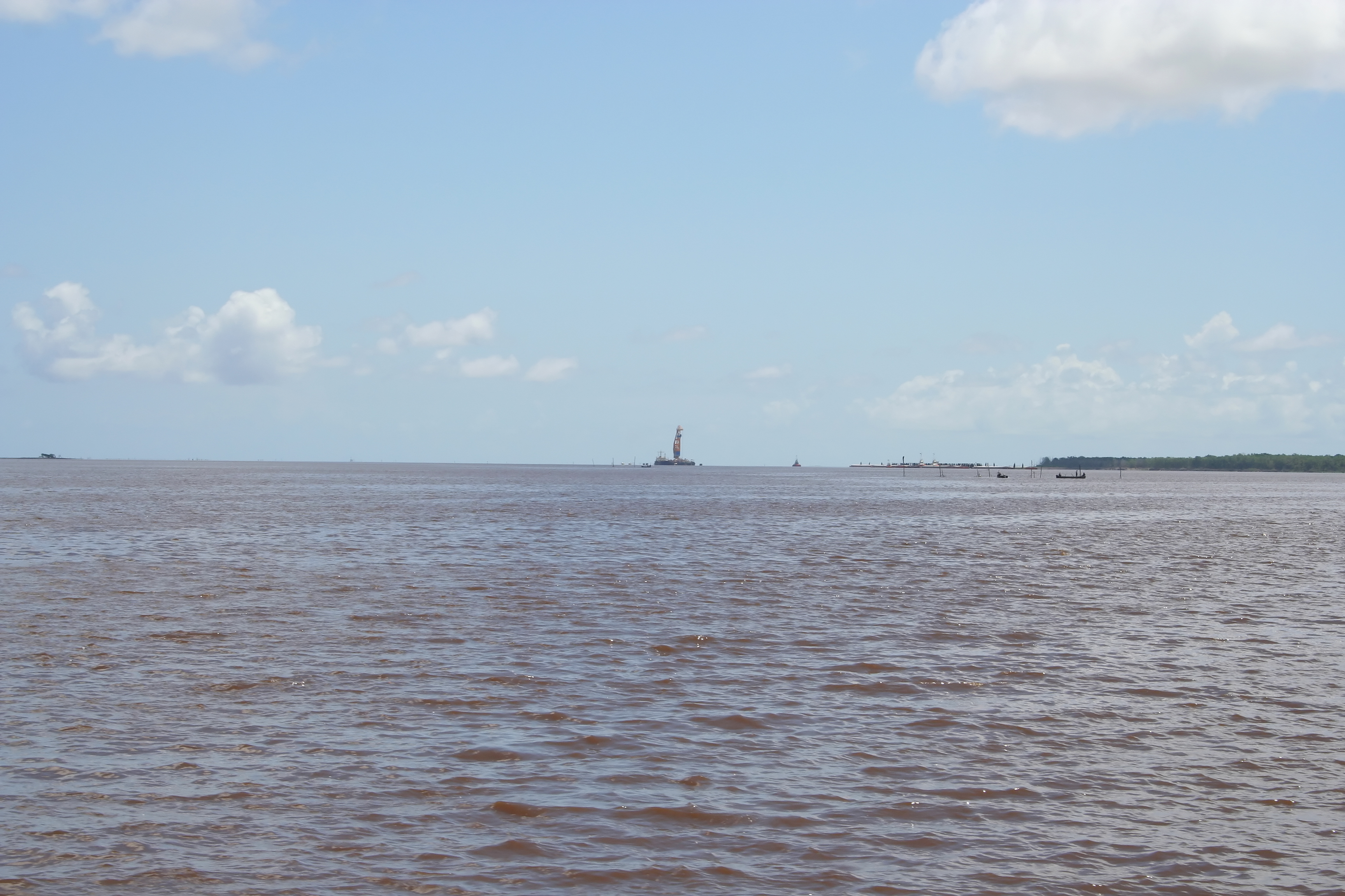 Pilings for the Berbice River bridge under construction in 2007.